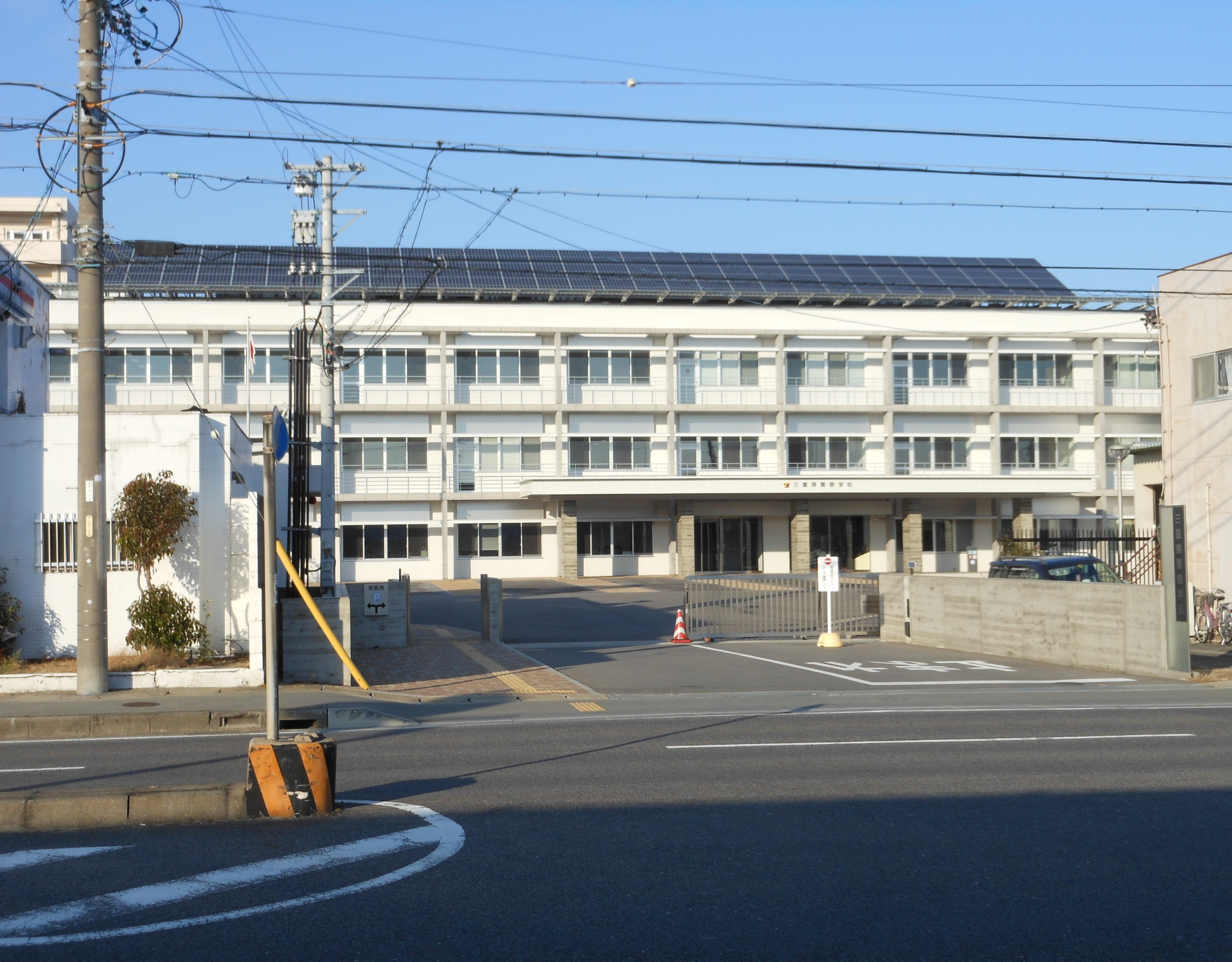 This is the Mie prefecture police academy, which is located in Tsu, Mie, Japan.